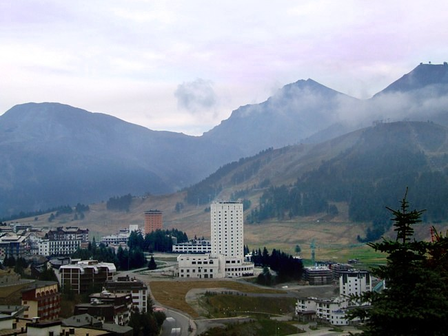 Colle di Sestriere Picture taken by user Idéfix , september 10, 2006